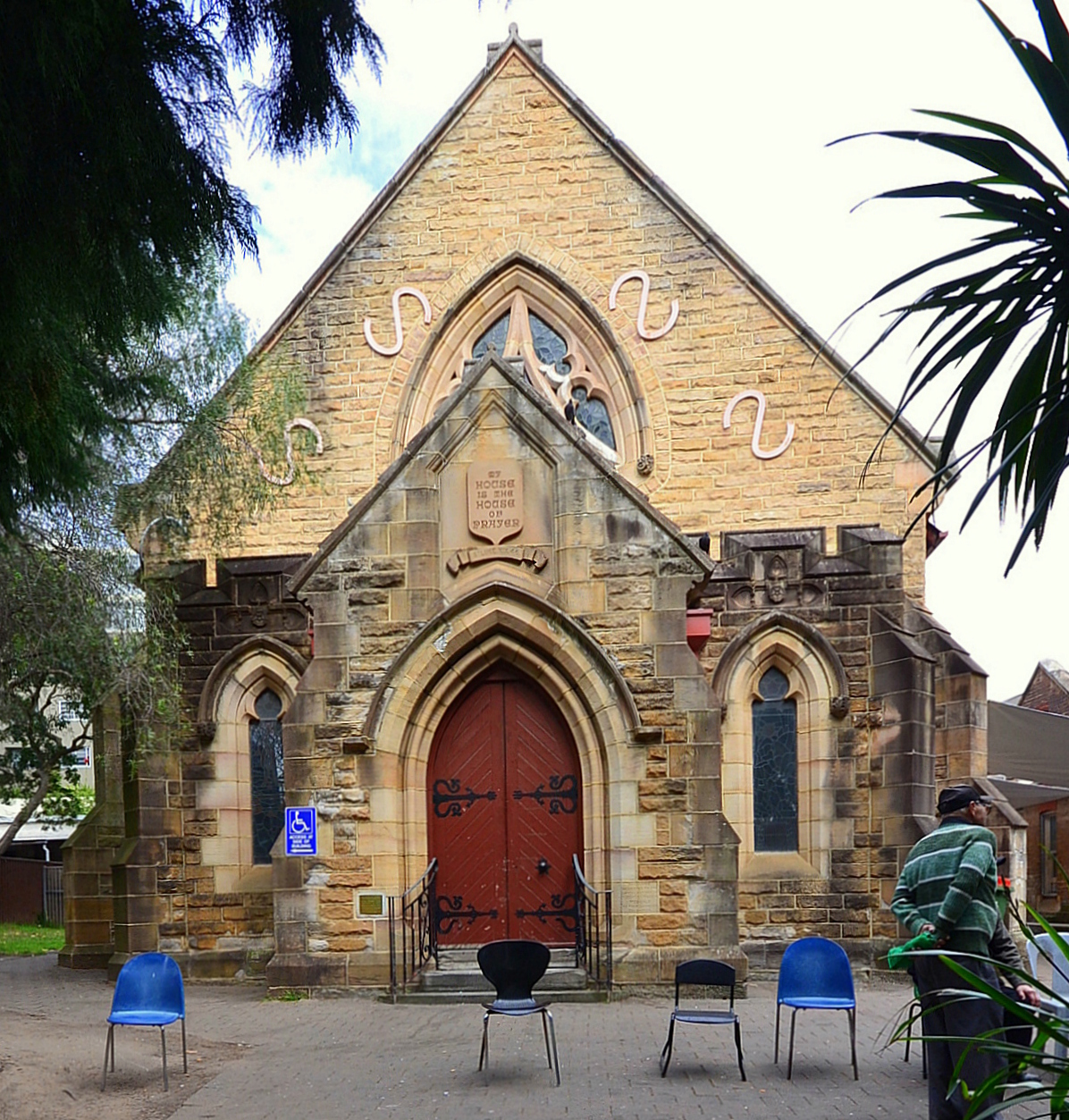 Uniting Church, Ashfield, Sydney